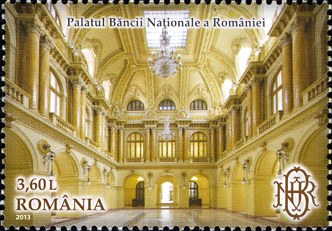 Stamps of Romania, 2013